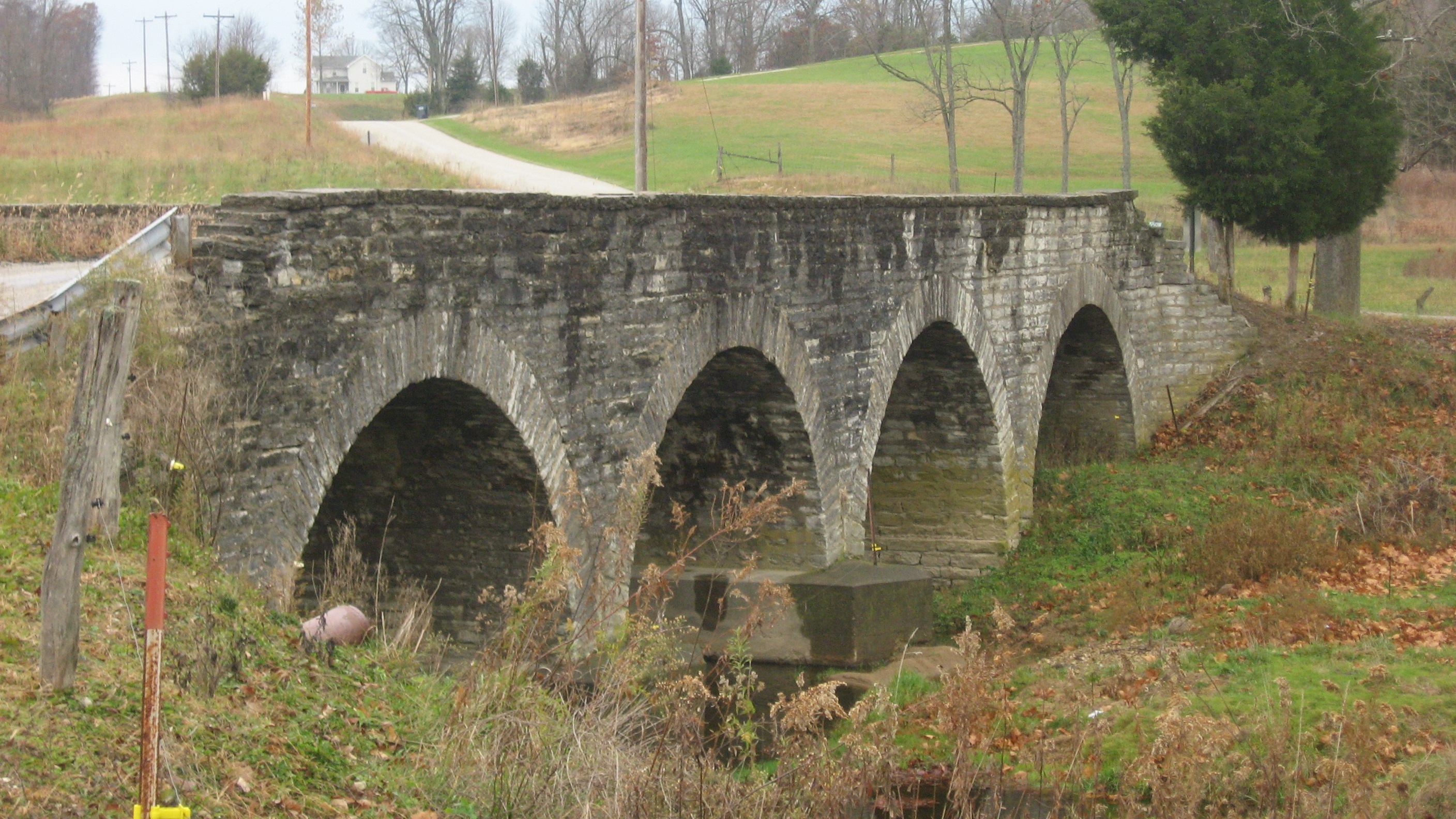 Northeastern side of the Straber Ford Bridge, which carries County Road 500N over Otter Creek northwest of Osgood in Center Township, Ripley County, Indiana, United States. Built in 1908, it is listed on the National Register of Historic Places.